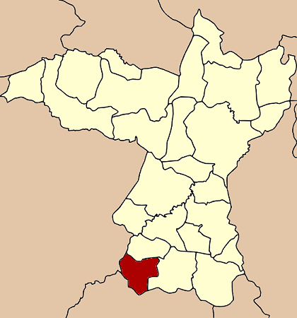 Map of Khon Kaen Province, Thailand, highlighting the district Waeng Noi (อำเภอแวงน้อย)